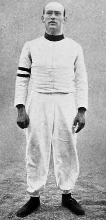 Jenő Fuchs at the 1912 Summer Olympics